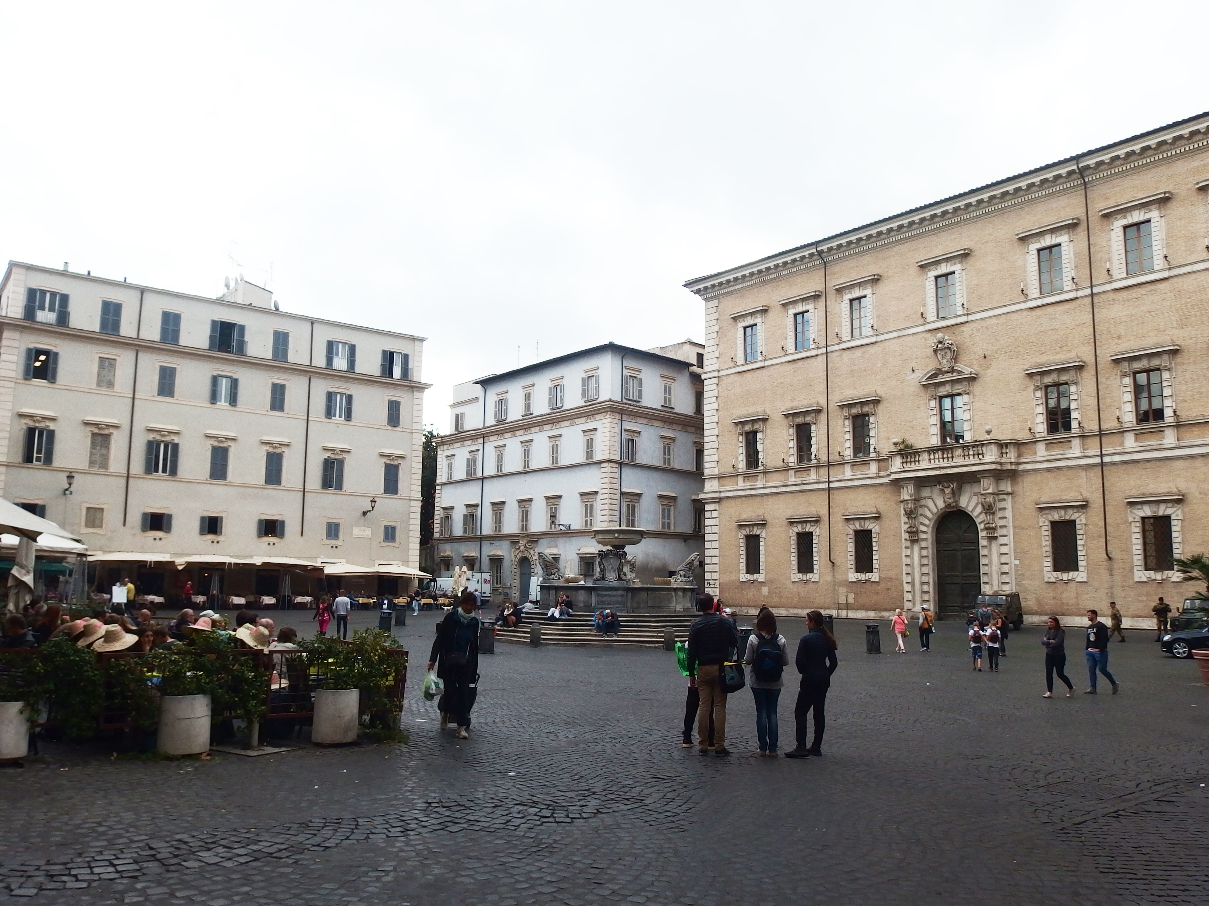 Rome, Italy. Santa Maria in Trastevere Square.